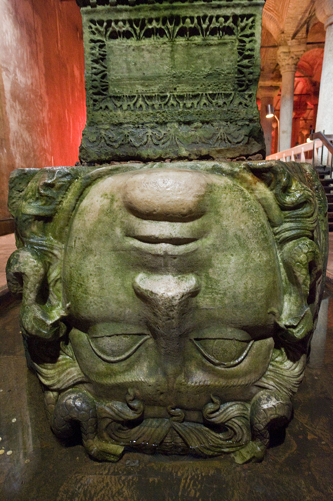 See article in Wikipedia for interpretation